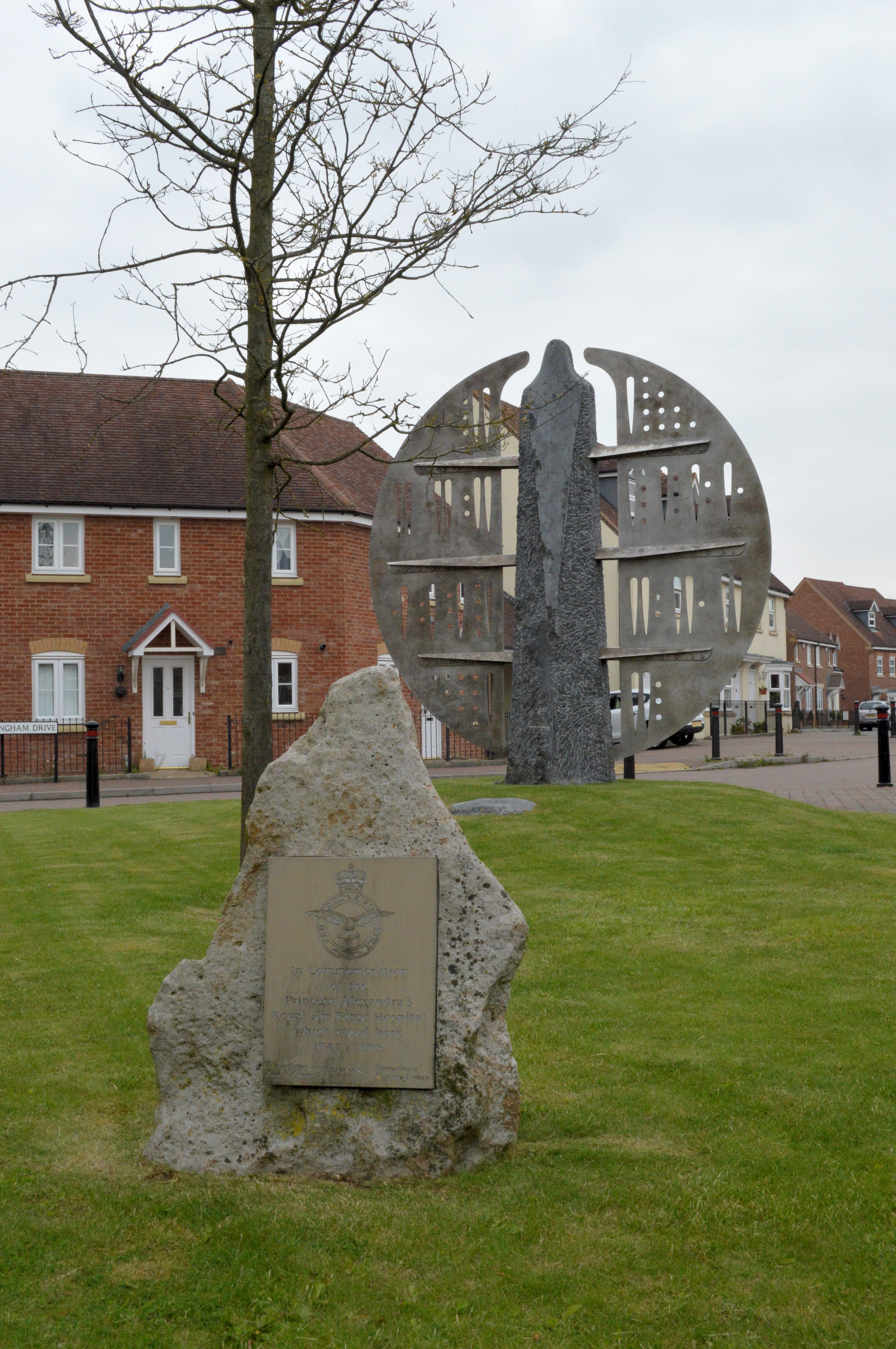 RAF Princess Alexandra Hospital memorial, where the hopital used to stand 1941-1995.